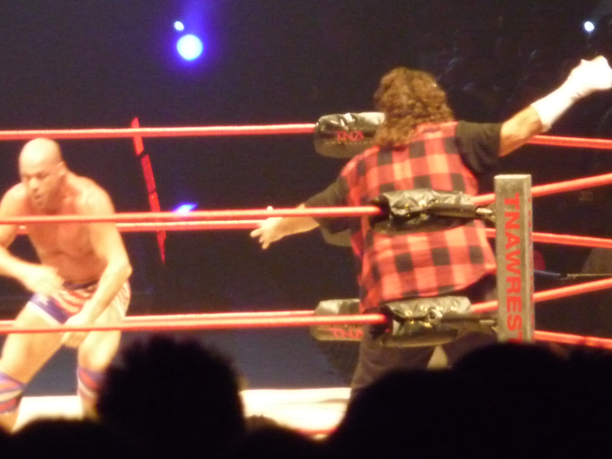 Mick Foley preparing to perform his "Mandible claw" on Kurt Angle.